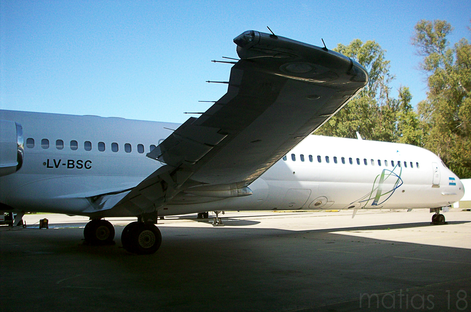 MD-87 LV-BSC in Ezeiza Airport, with new aerochaco livery.